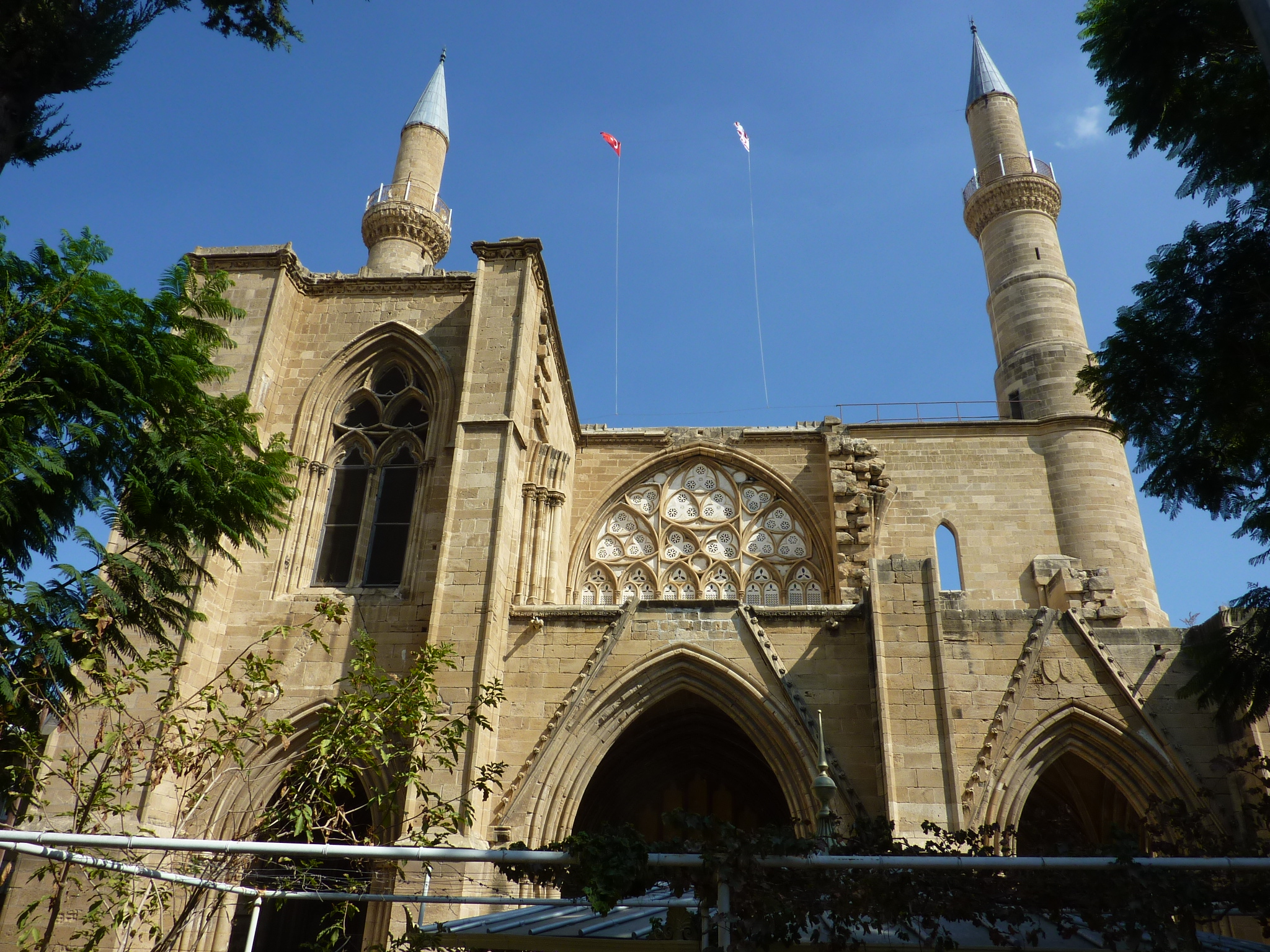 Selimiye Mosque (St. Sophie Cathedral)